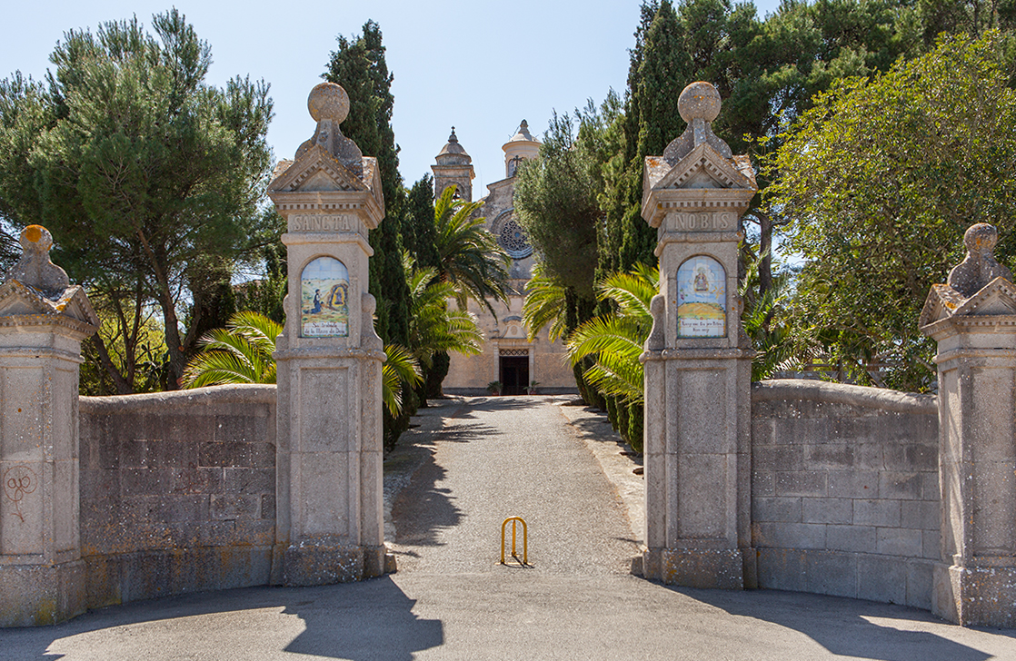 Monastery Santuari de la Mare de Déu de Bonany, near Petra (Mallorca)